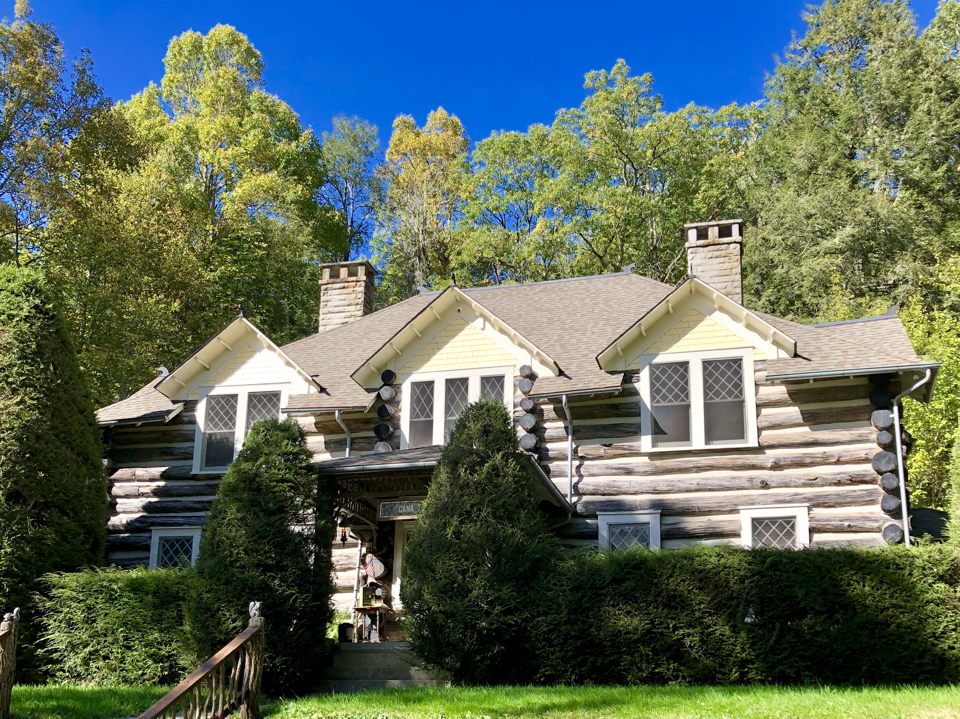 This is a photo showing the E. M. Backus Lodge (also known as Canaan Land), located near Lake Toxaway, North Carolina. Constructed in 1903, the lodge is one of only a few surviving examples of American Chestnut log construction in North Carolina, and was listed on the National Register of Historic Places in 1988. The lodge and surrounding property is presently operated as the Canaan Land Christian Retreat, which hosts Baptist and Bible Church groups between mid-May and mid-October.